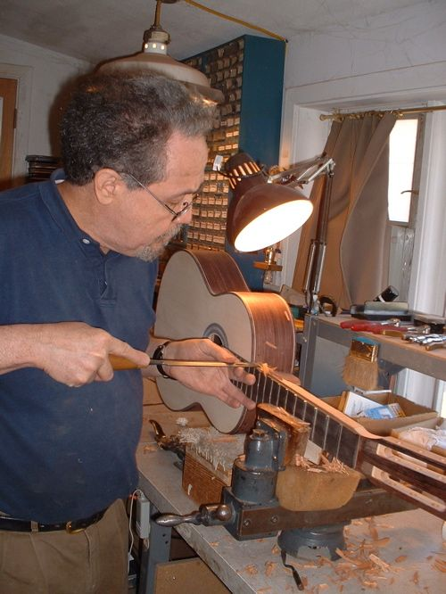 From e-mail I have one request, please e-mail me a photo of yourself that I can use in the article. Look over the article and if there is something which I should change let me know. Tony the Marine I don't know what your AOL mailbox capacity is. I'm sending you one picture, but I have others to chose from if you don't like the one I've attached. William Cumpiano